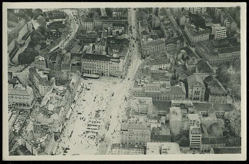 Aerial photo of Ban Jelačić Square in Zagreb, seen from the west